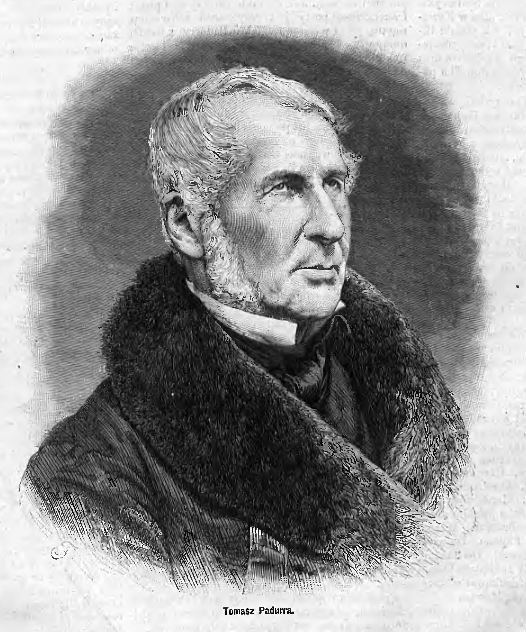 Last picture (photo) Tomasza Padurry